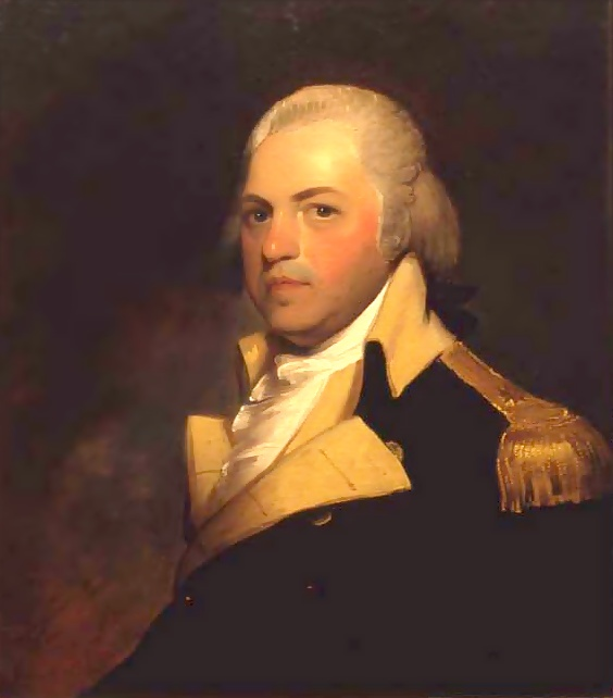 Henry Lee, former Governor of Virginia and father of Robert E. Lee